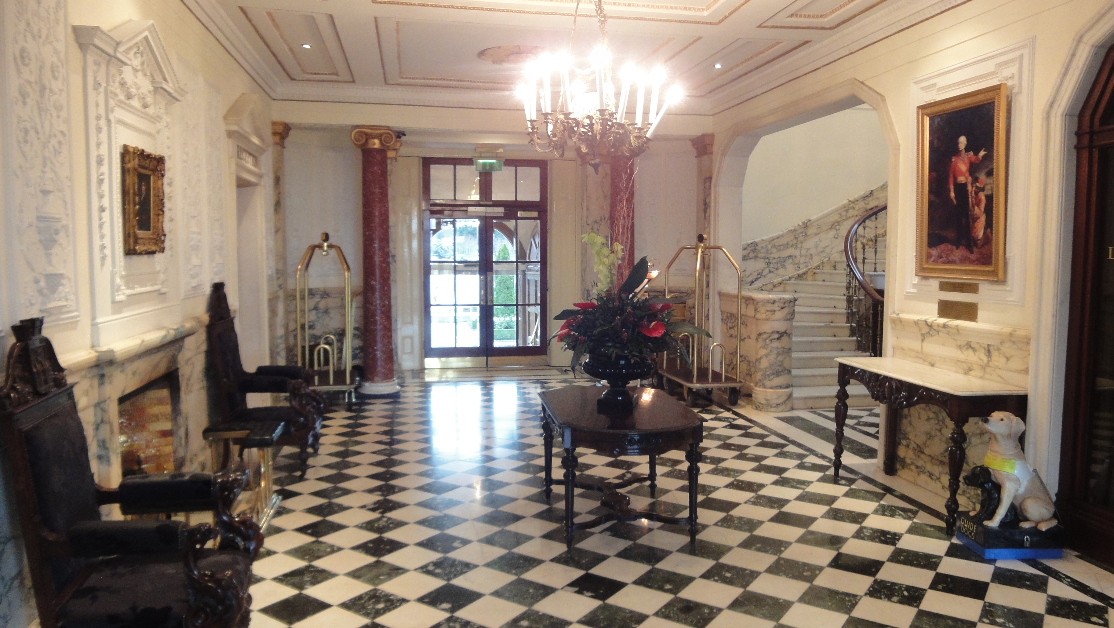 The hallway of St. Helen's, Booterstown, Dublin, Ireland